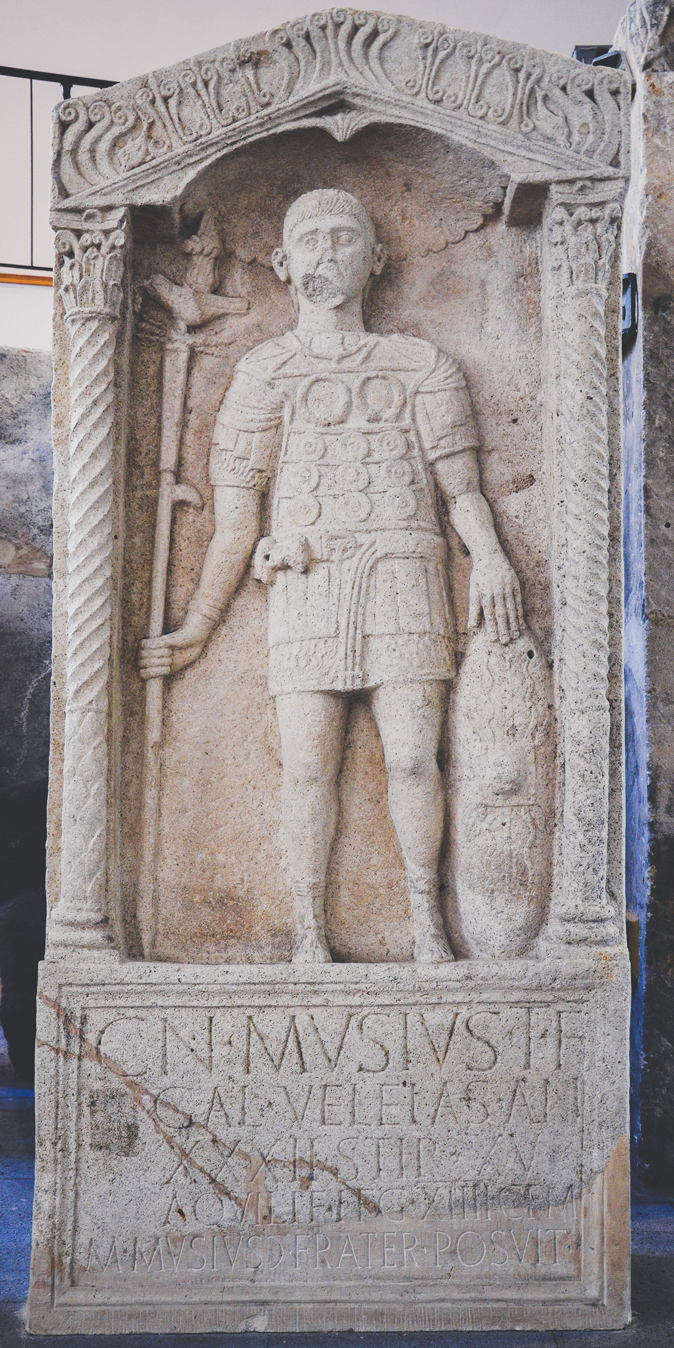 Tombstone of Gnaeus Musius, standard bearer of Legio XIV Gemina, 1st century AD, Landesmuseum, Mainz. CIL XIII 6901: Cn(aeus) Musius T(iti) f(ilius) / Gal(eria) Veleias an(norum) / XXXII stip(endiorum) XV / aquilif(er) leg(ionis) XIIII Gem(inae) / M(arcus) Musius /(centurio) frater posuit